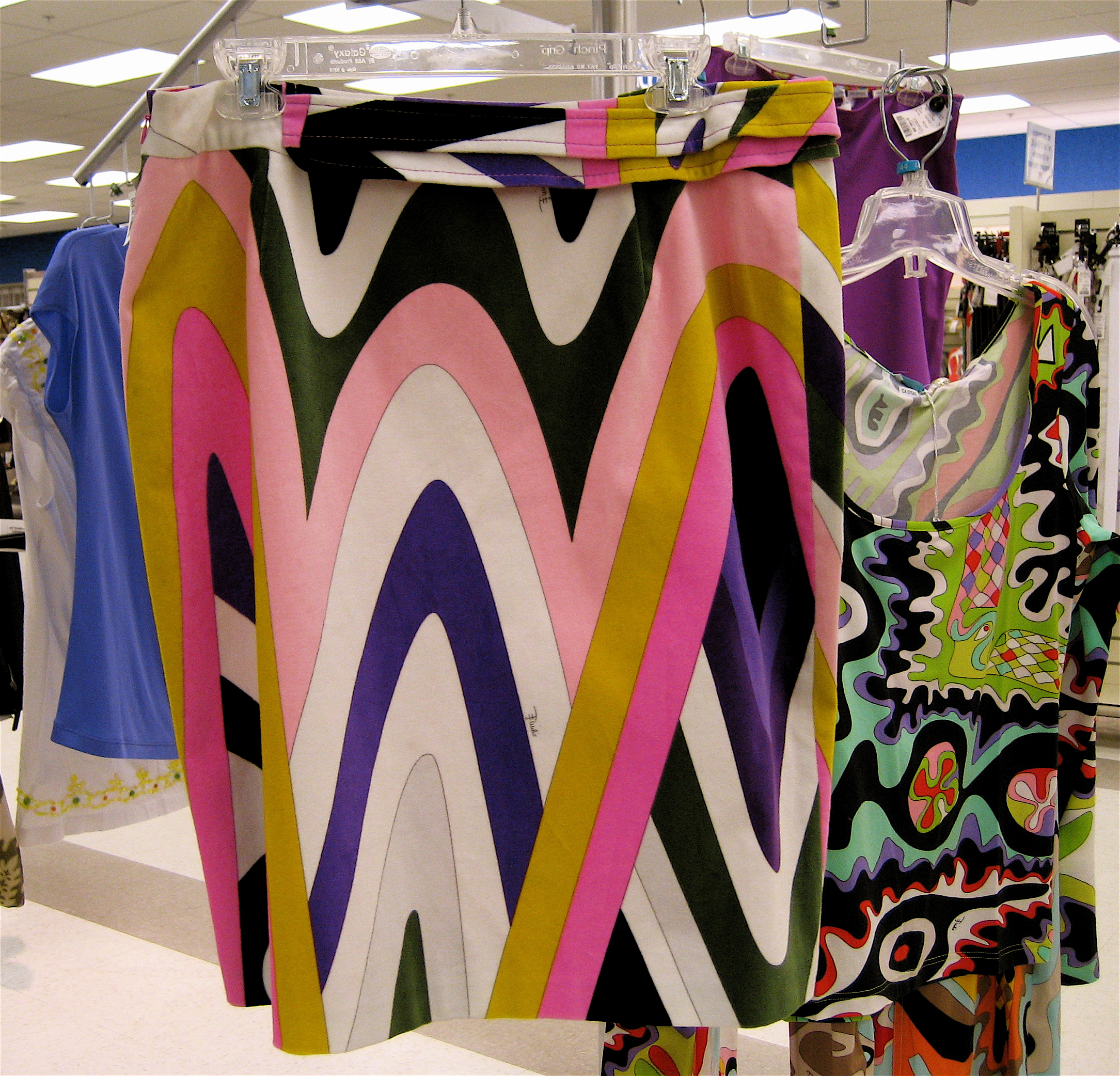 Skirt and dress by Emilio Pucci design company, at Holt Renfrew store in Montreal in 2007